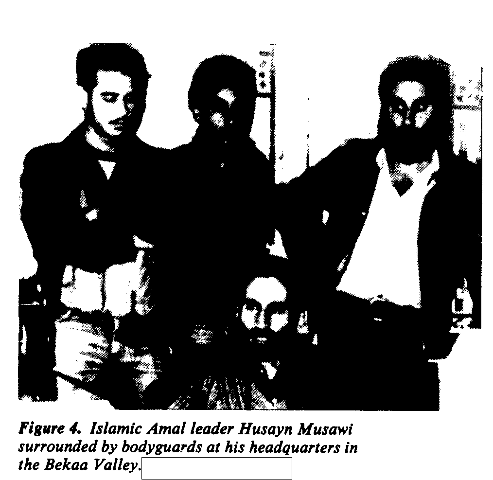 Islamic Amal leader Husayn Musawi surrounded by bodyguards at his headquarters in the Bekaa Valley.